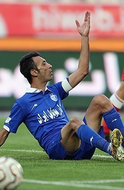 Reza Enayati